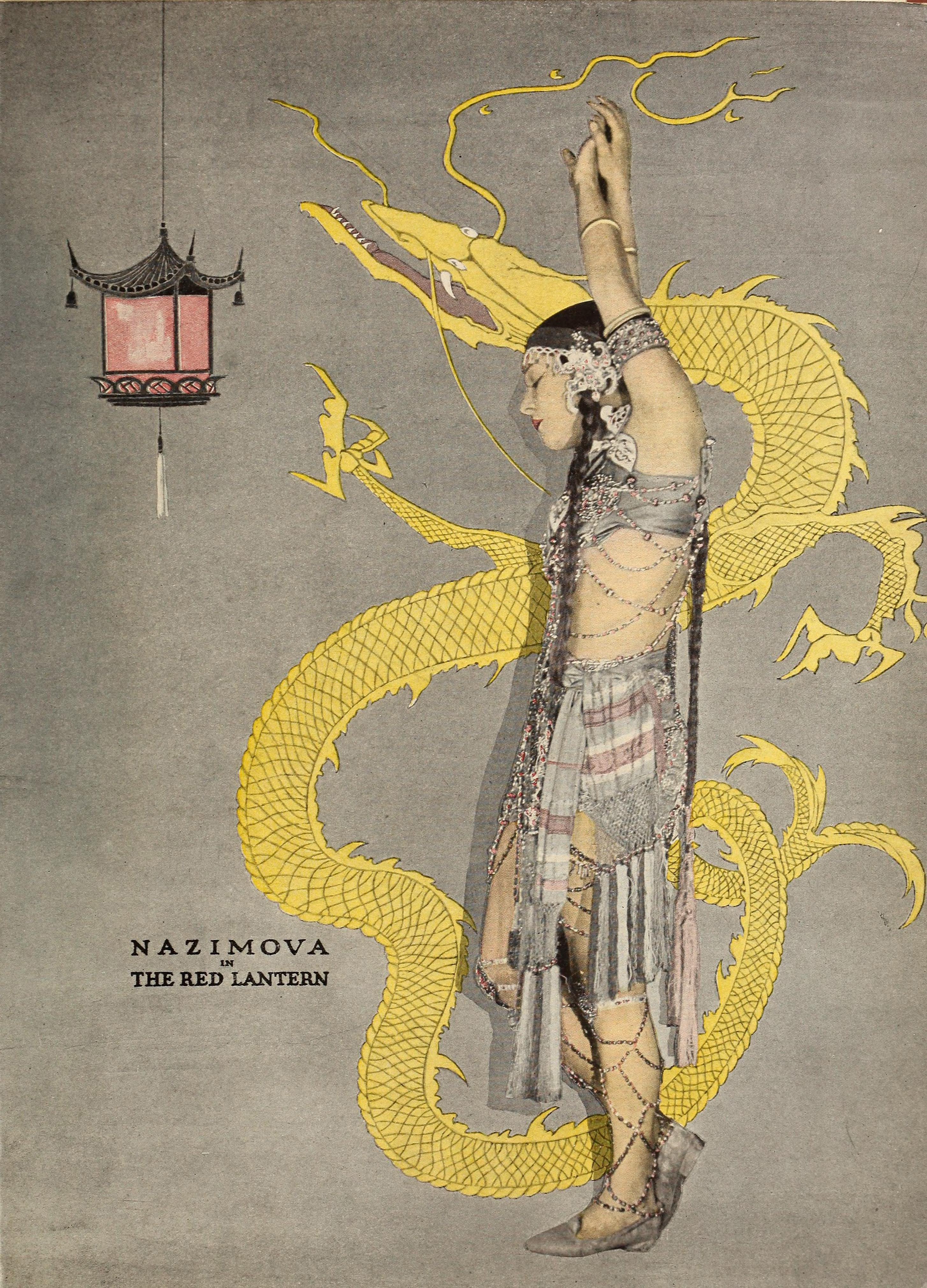 Advertisement in Moving Picture News for the American film The Red Lantern (1919) with Alla Nazimova.